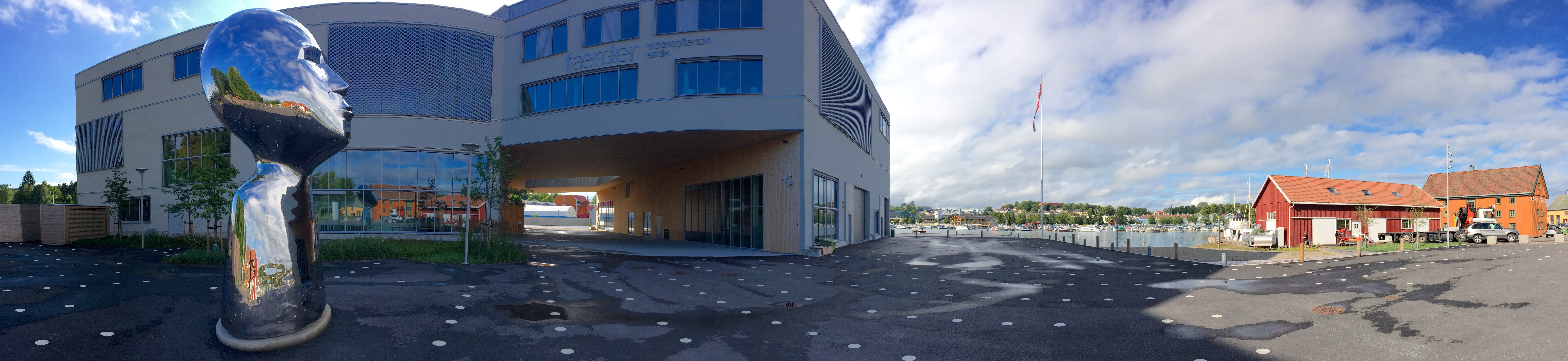 Faerder videregaaende skole Kaldnes Toensberg 2015-07-21 cropped panorama 03